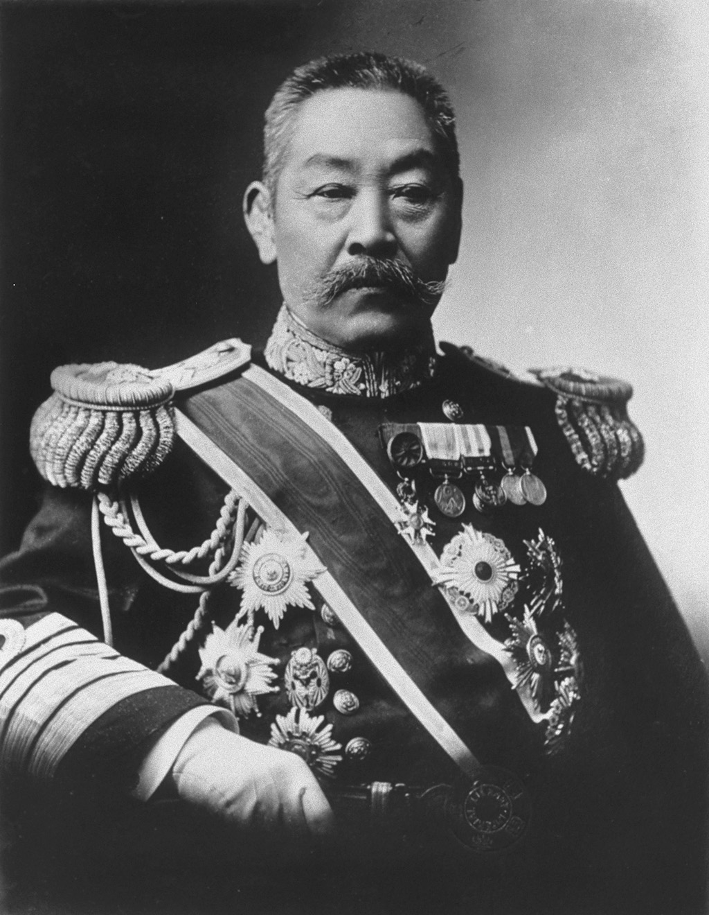 Portrait of Ito Yuko (伊東祐亨, 1843 – 1914)